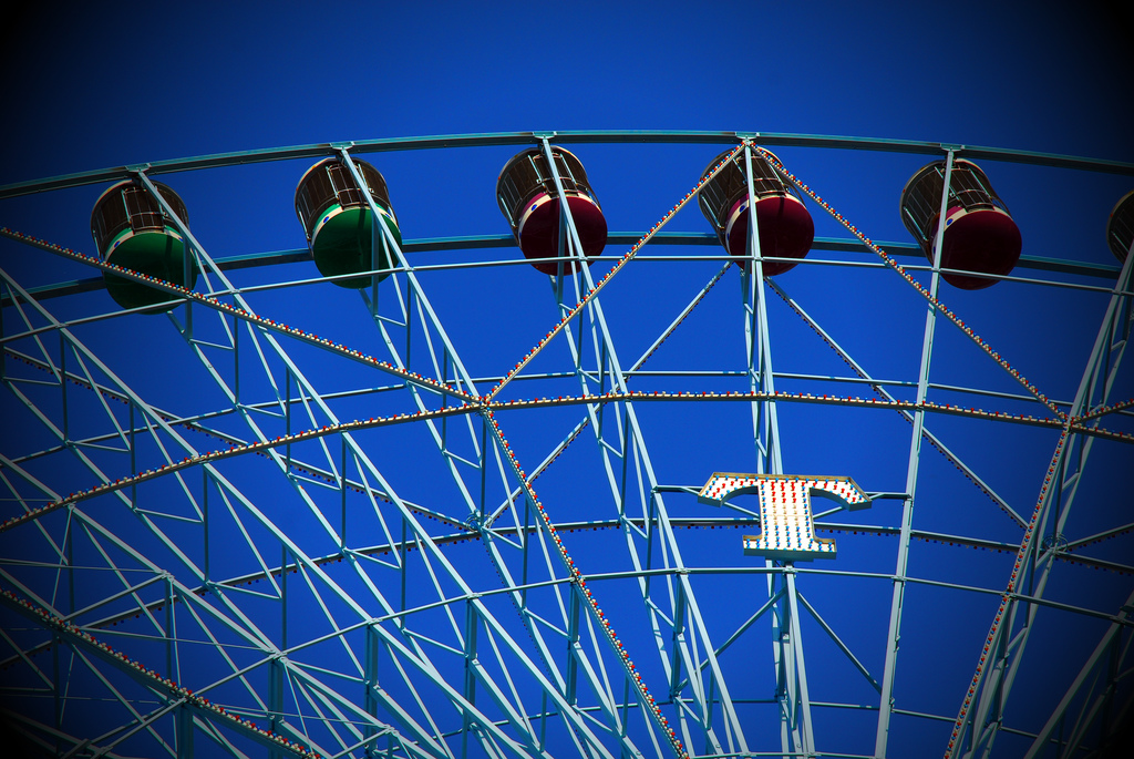 At the 2007 State Fair of Texas.